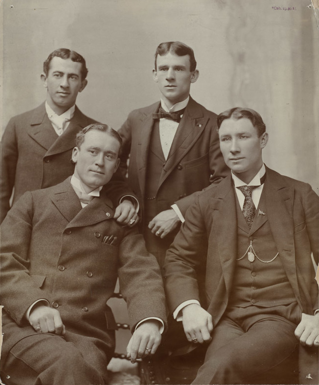 Accession No.: 06_06_000126 Title: Stars players of the Baltimore Orioles Date: ca. 1895 Format: photograph Description: Standing, left to right: Outfielder Wee Willie Keeler and third baseman John T. McGraw. Seated: Outfielder Joe Kelley and shortstop Hugh Jennings. BPL Collection: McGreevey Collection BPL Department: Print Subject: Baseball--History Baltimore Orioles (Baseball team)